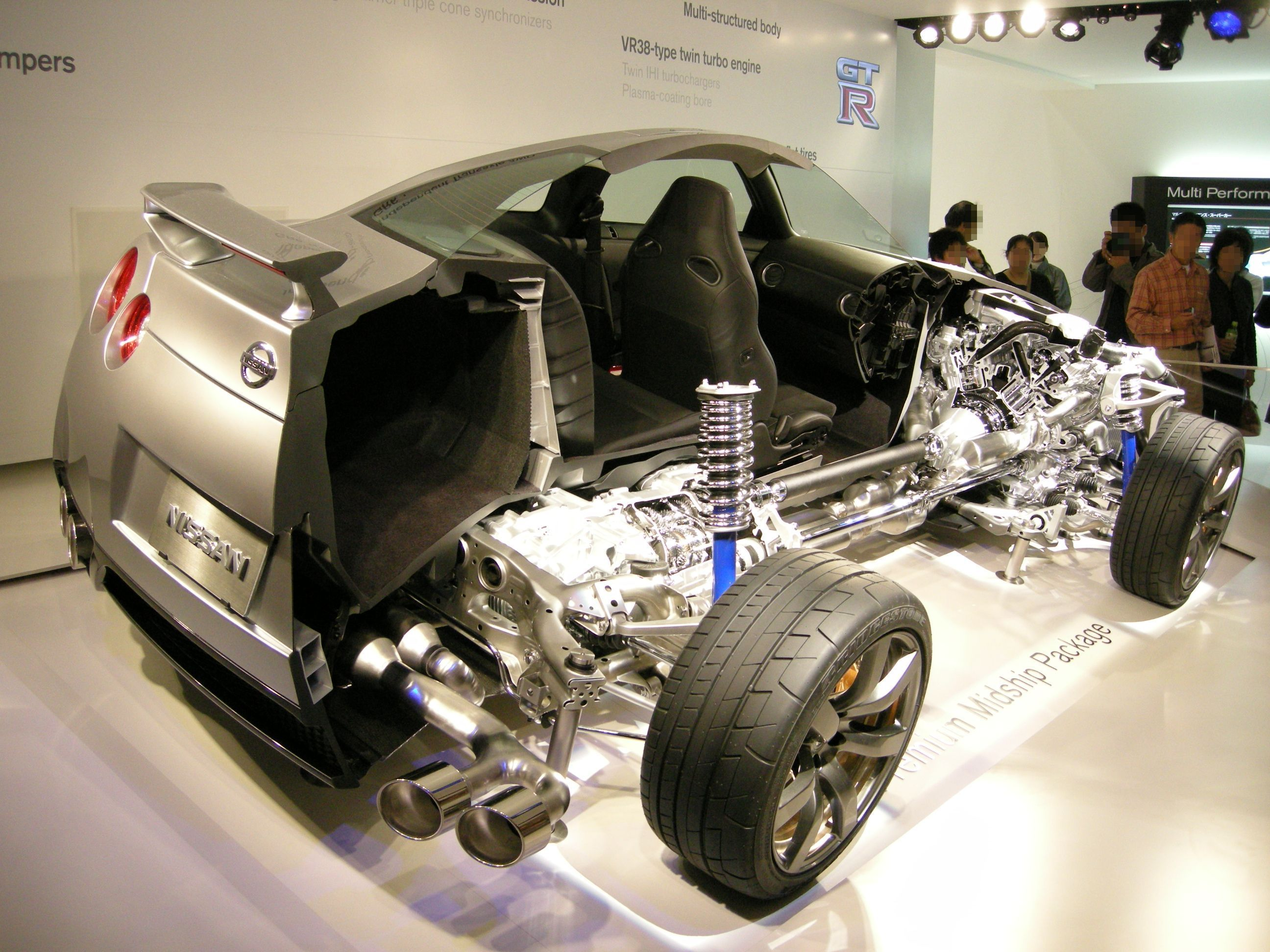 Nissan GT-R cutmodel at tokyomotorshow2007